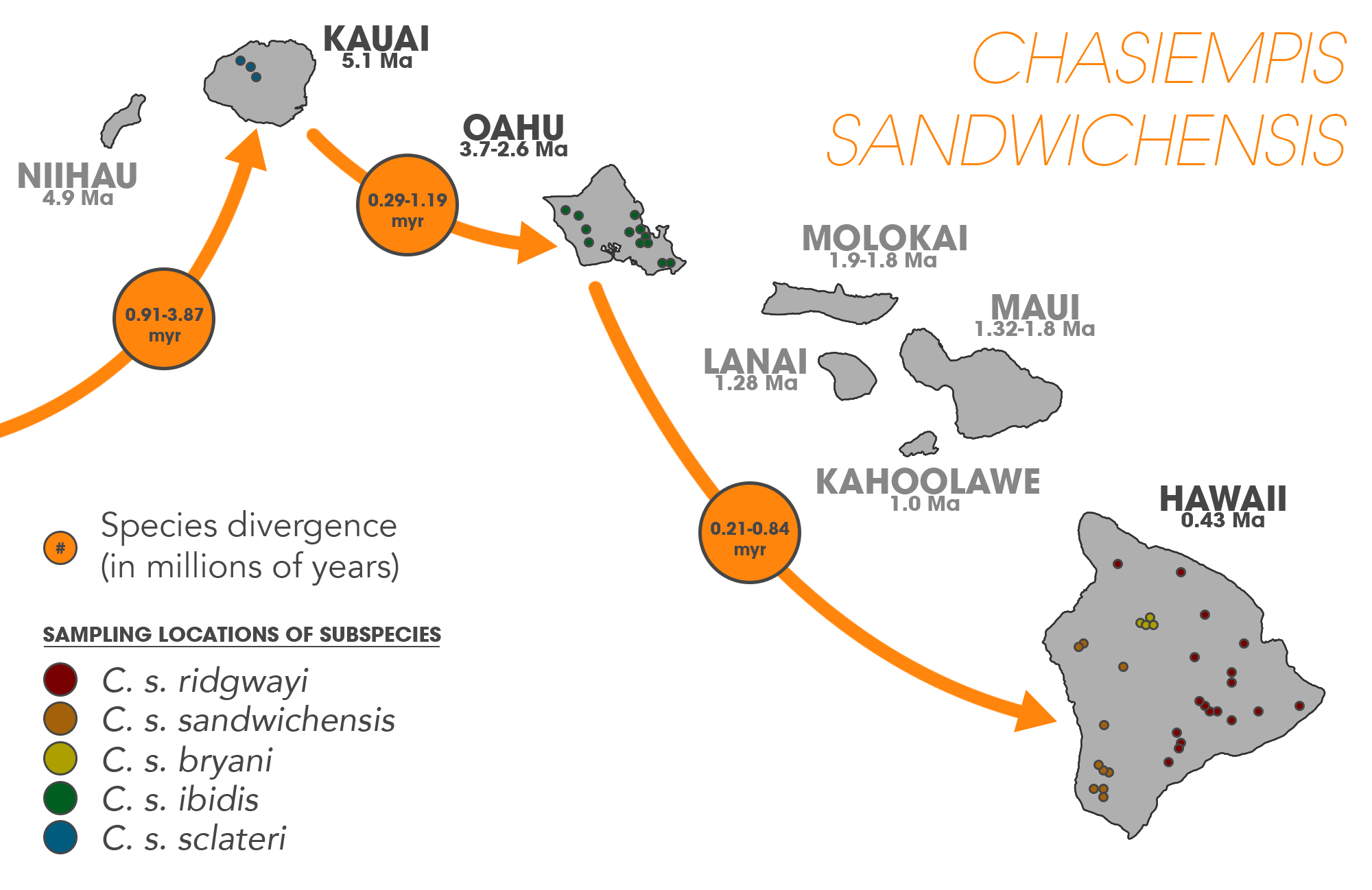 Colonization and speciation of Chasiempis sandwichensis subspecies (denoted by the orange arrows). Divergence times are noted on the arrows. Island age is noted below the island names. Subspecies sampling is based on VanderWerf et al. (2010) and is noted by the color-coded dots.[1]